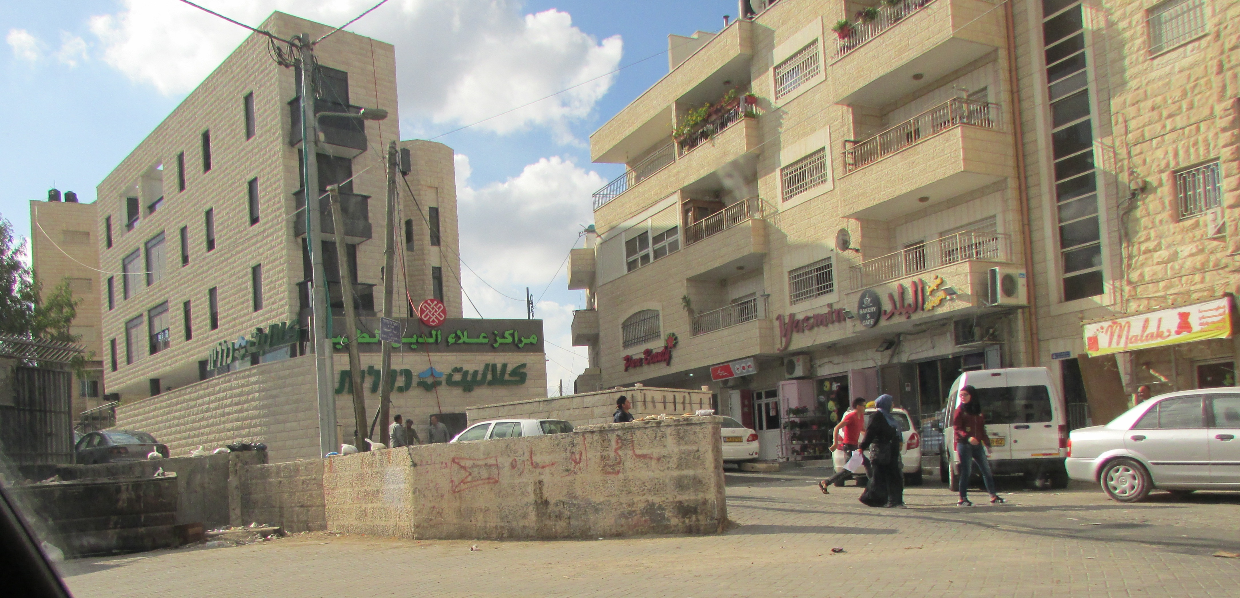 At-Tur neighborhood in Jerusalem on Mount of Olives.